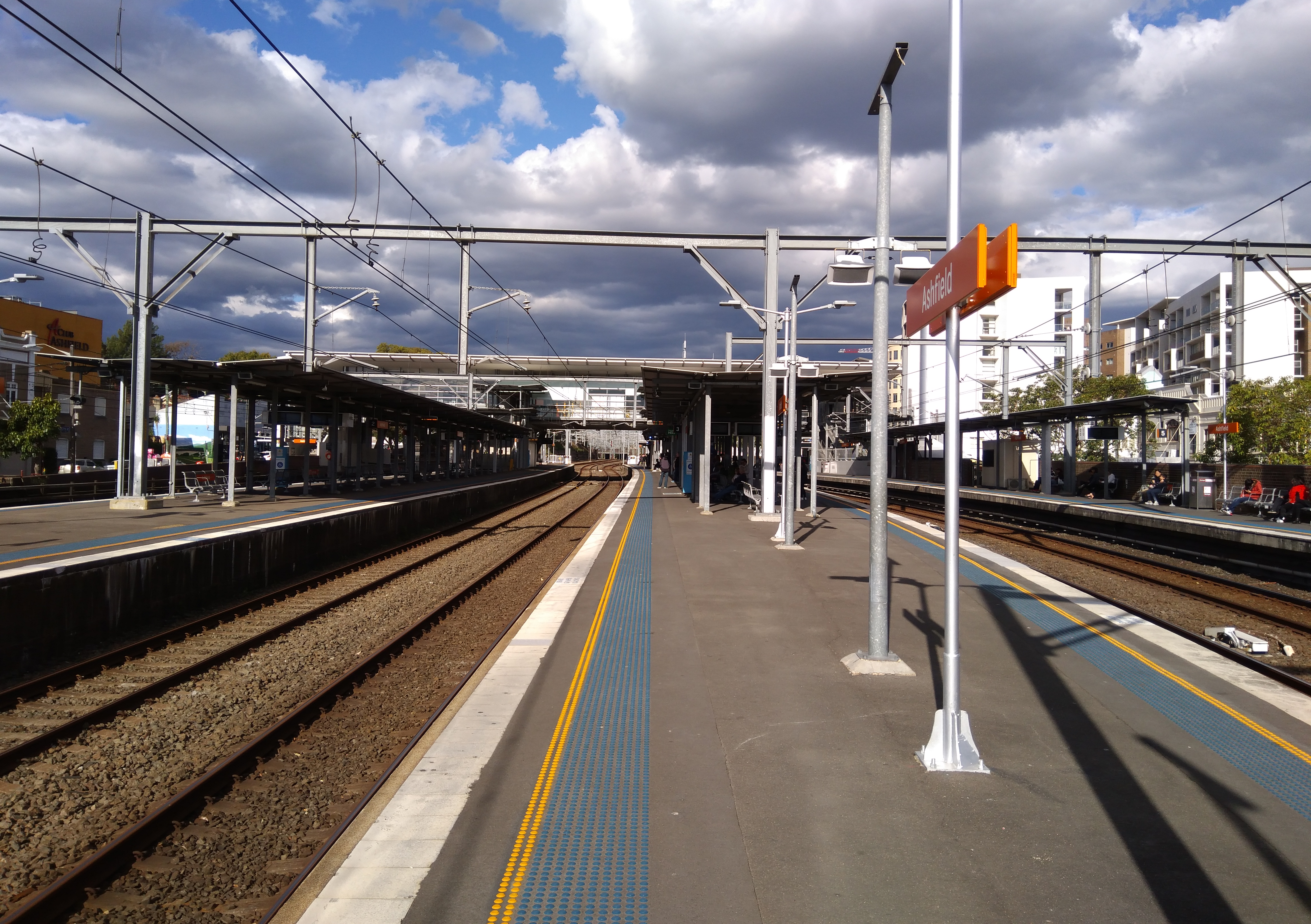 Ashfield railway station platforms from the western end.